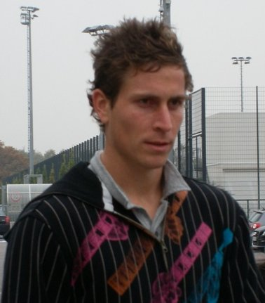 Canadian football player Rob Friend